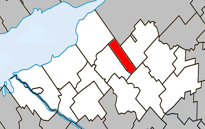 Location of Grand-Saint-Esprit, Quebec within Nicolet-Yamaska Regional County Municipality.